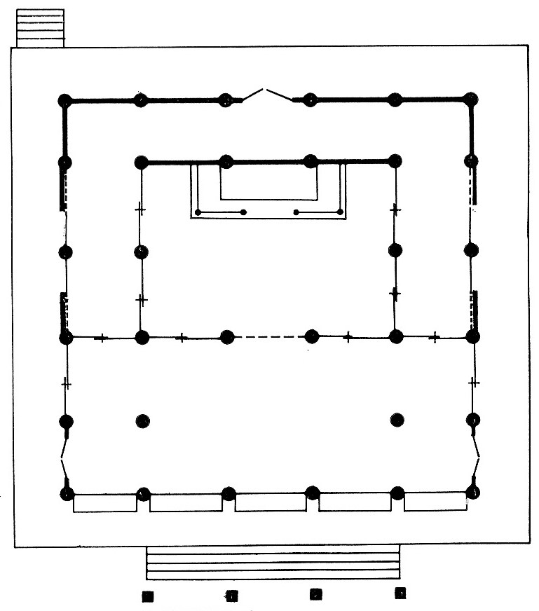 Layout of Motoyama Temple Pref. Kagawa, Japan